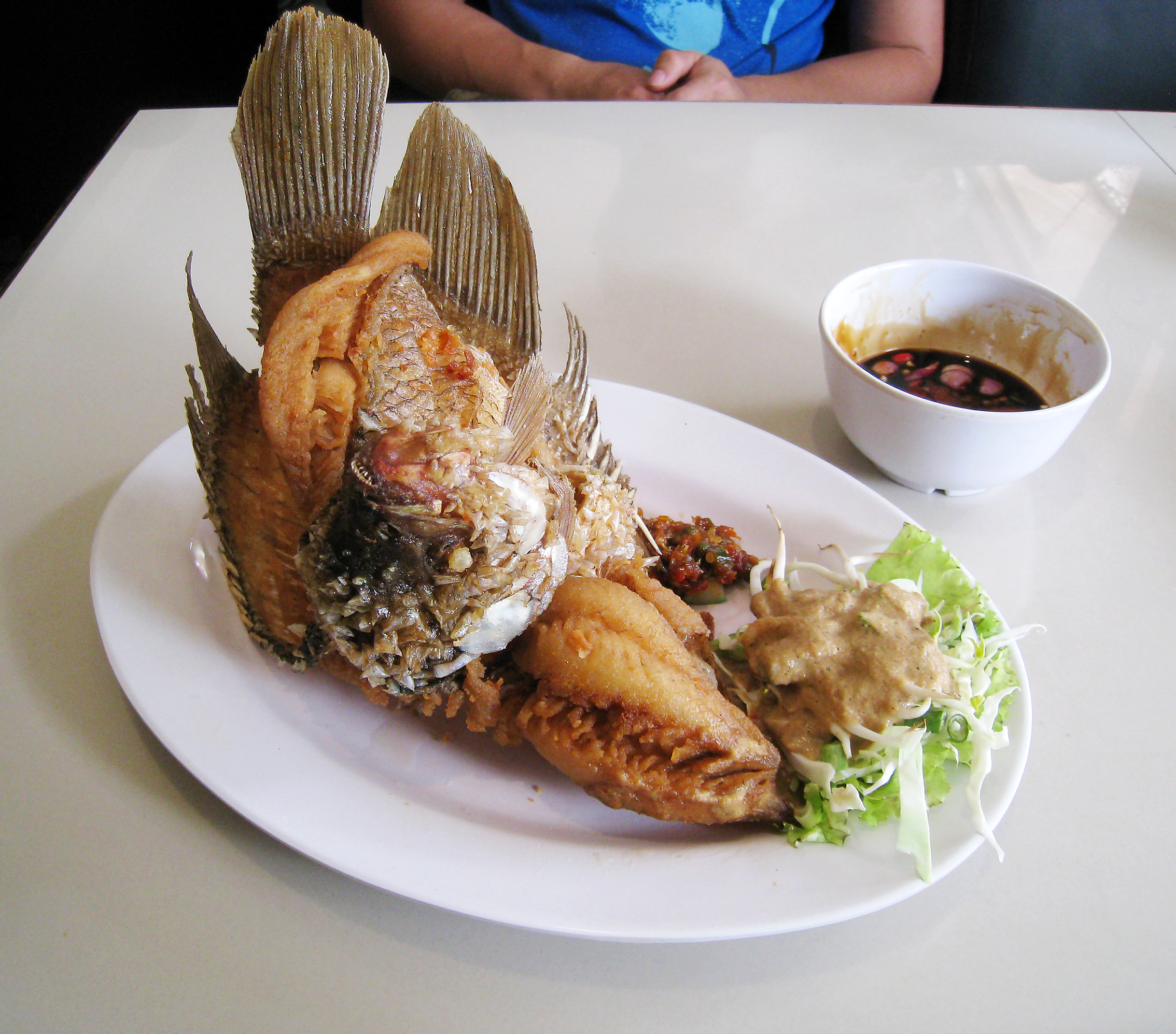 Gurame Goreng Kipas or "Fried Gourami Fan", ikan goreng or fried fish of gourami arranged in fan-shape. Served with karedok vegetables, sambal terasi and sambal kecap. Served in a restaurant in Jakarta, Sundanese cuisine, Indonesia.